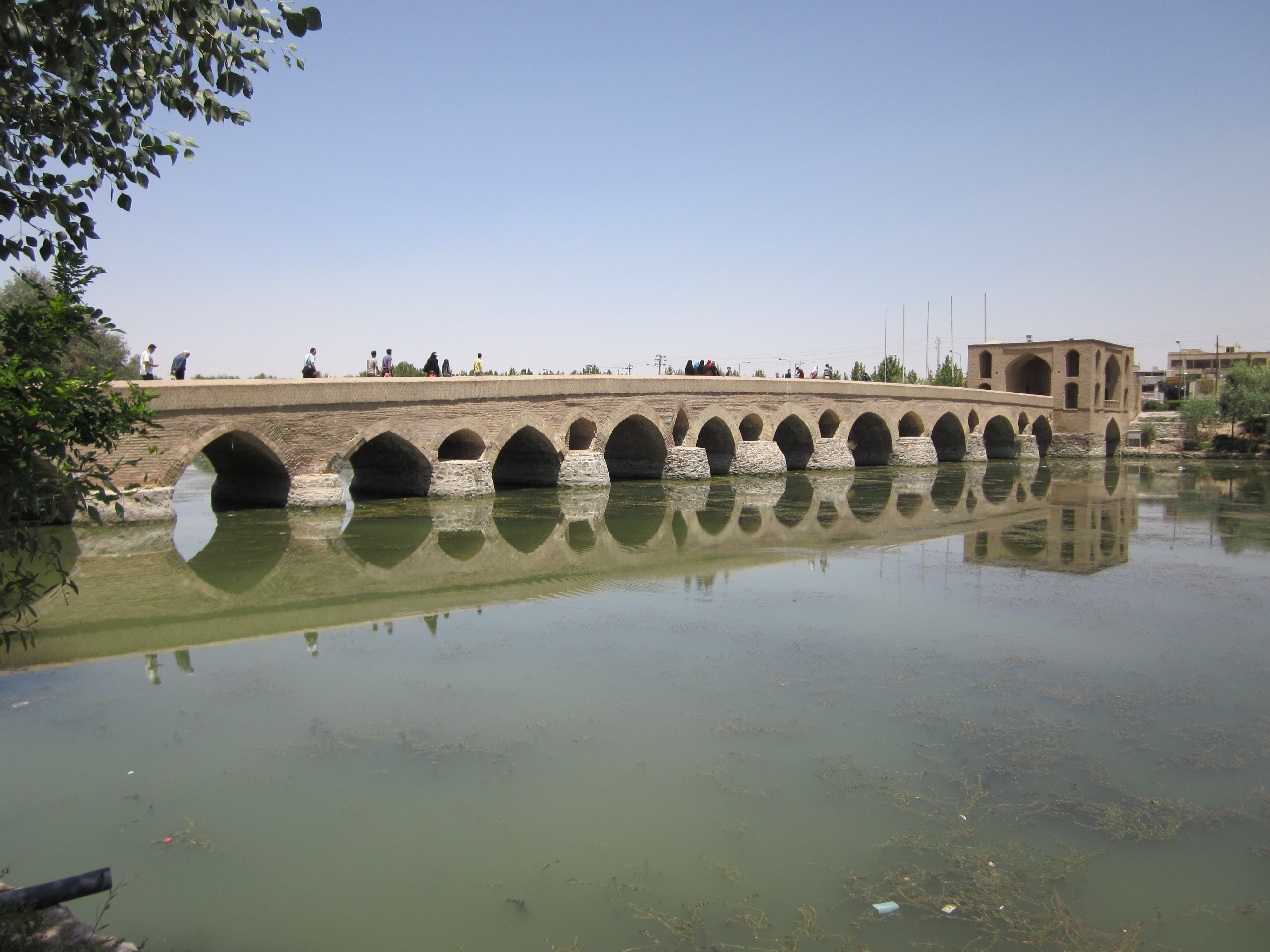 Shahrestan Bridge, Isfahan, Iran.